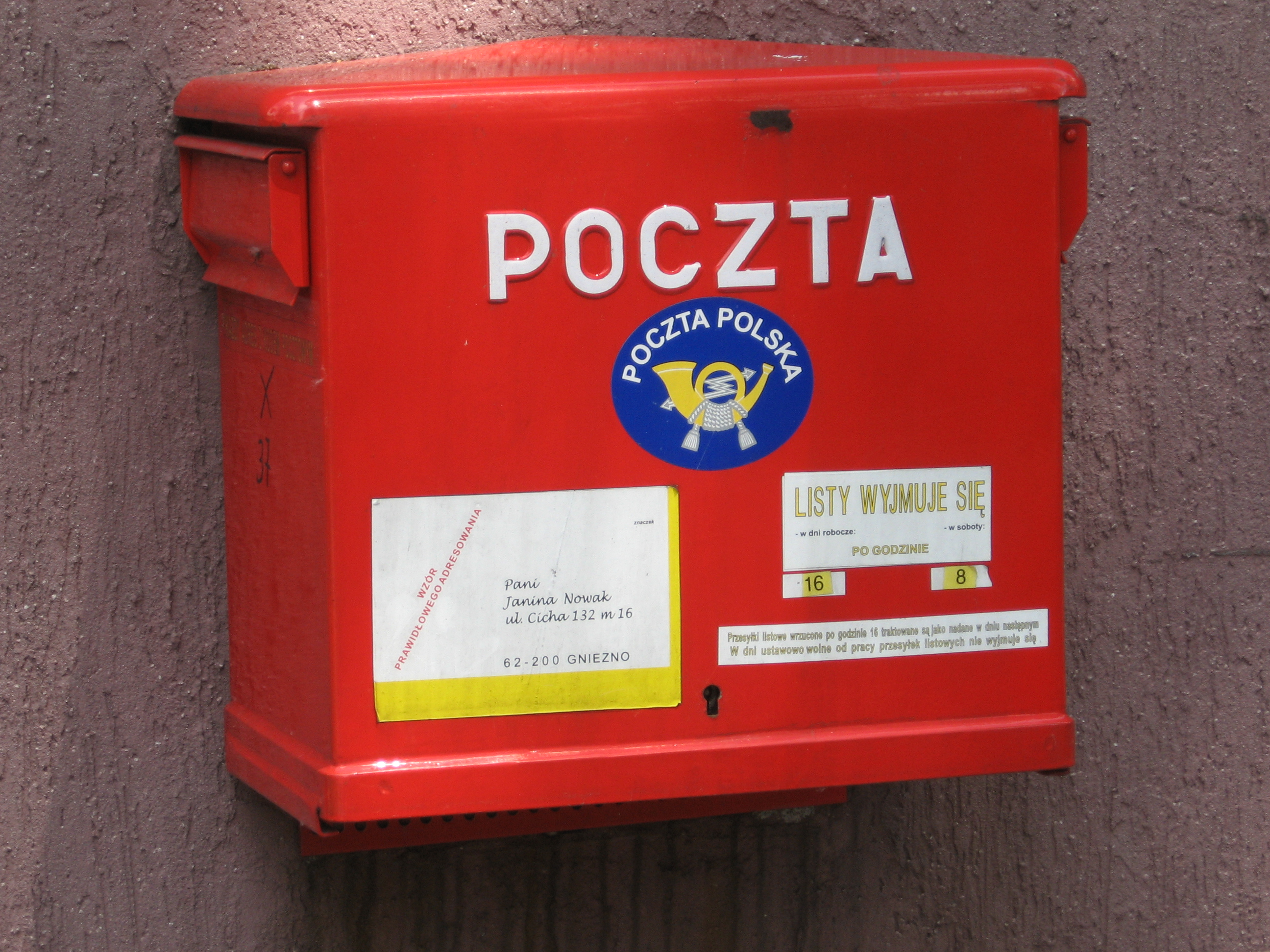 Mailbox in Poland.